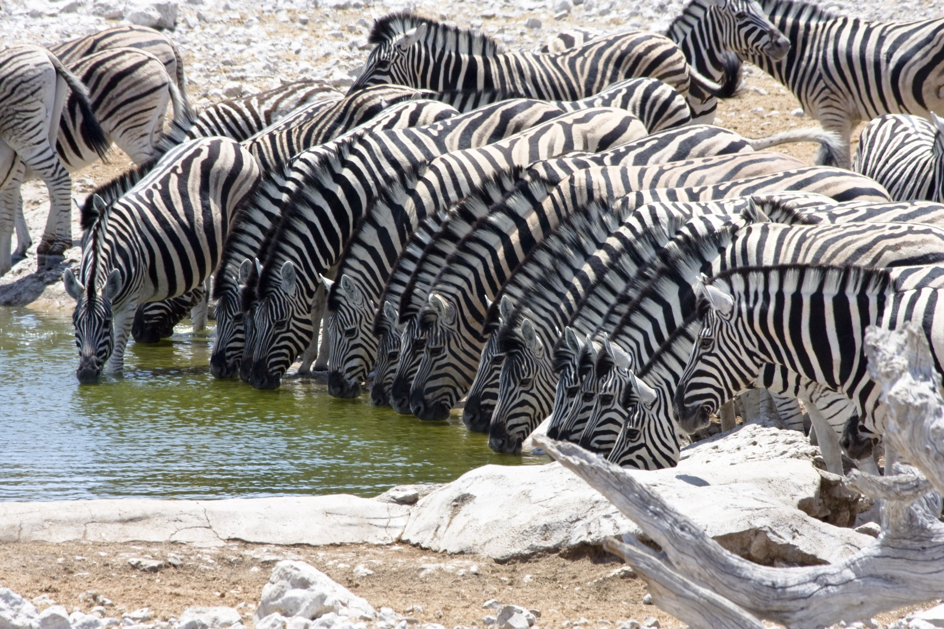 Zebras im Etosha-Nationalpark, Namibia